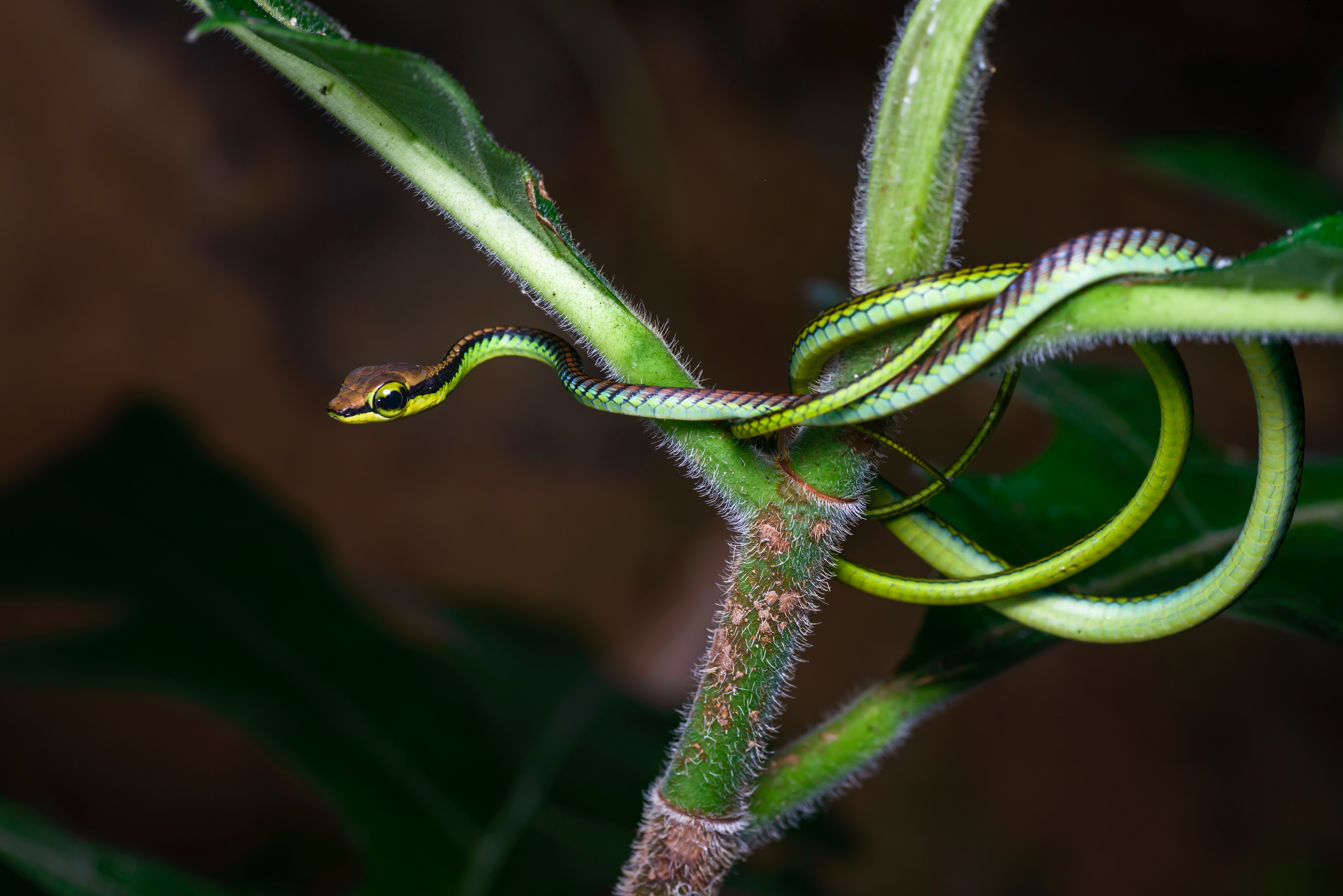 This photo is published under Creative Commons Attribution-Share-Alike Licence, means you are free to use this photo with attribution under same licence. For credits, please use following; Owner: Thai National Parks Link